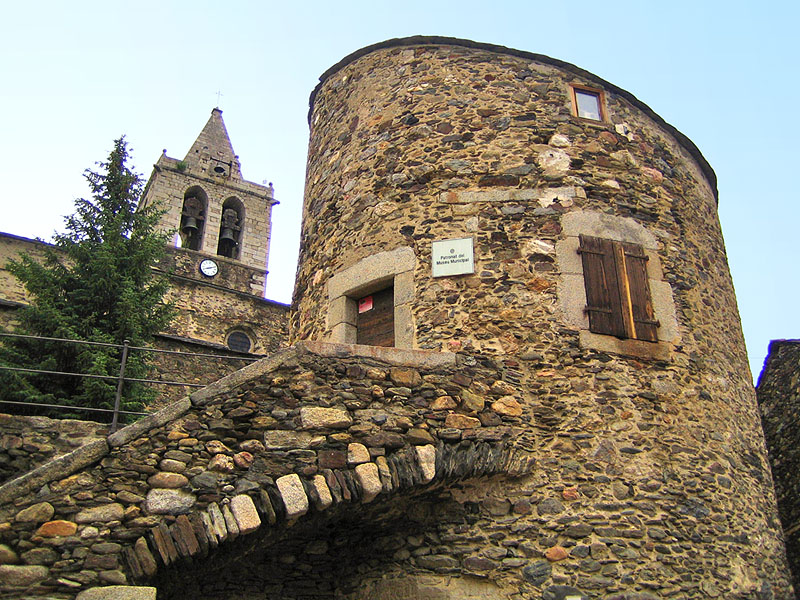 Tower and church in Llívia, county Cerdanya, Catalonia, on the border between Spain and France.